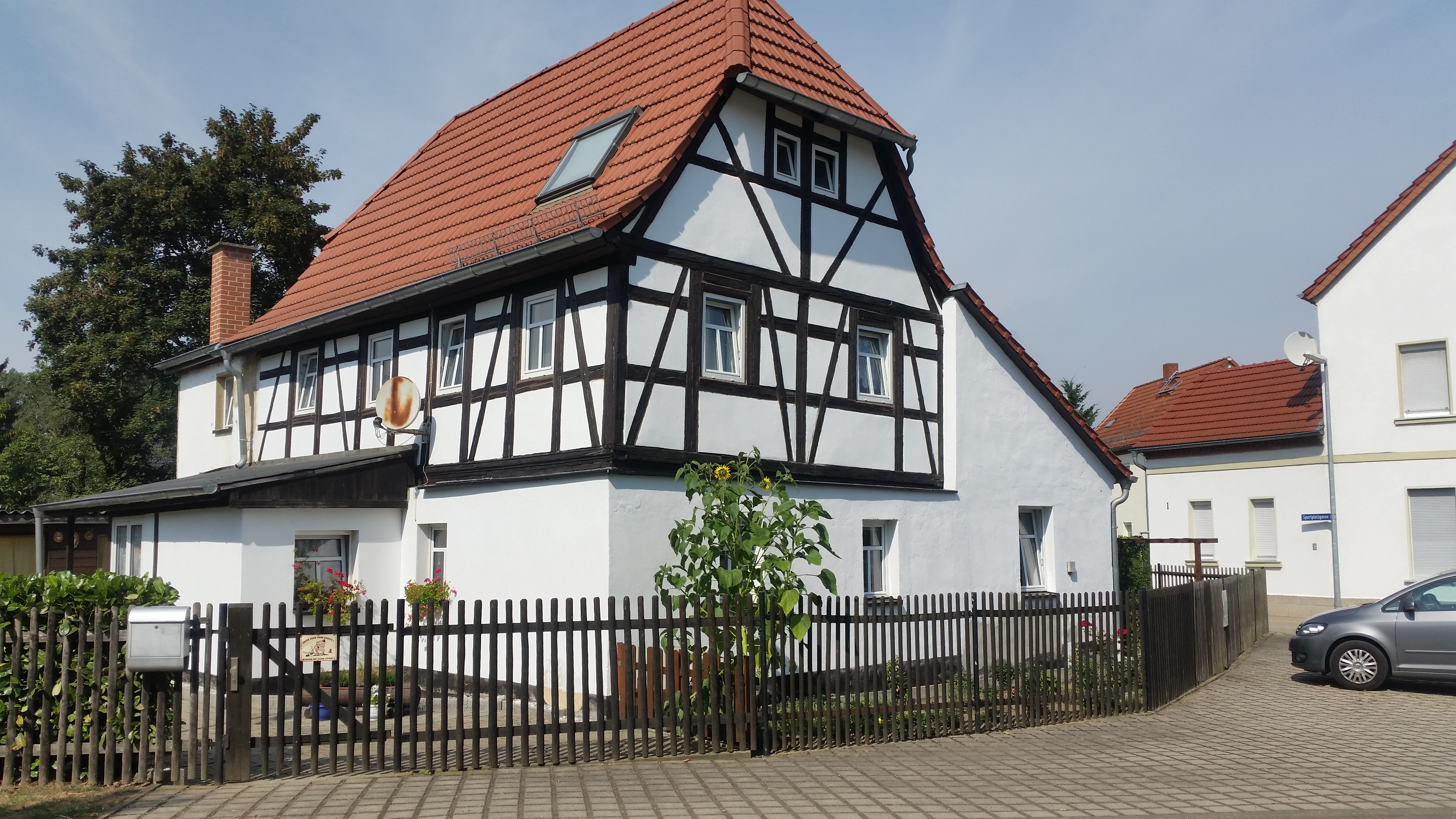 House on Benndorfer village square